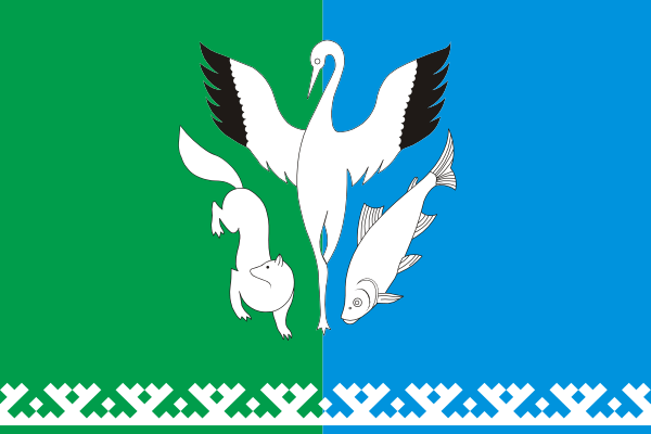 Flag of Shuryshkarsky rayon, Yamal Nenetsia, Russia